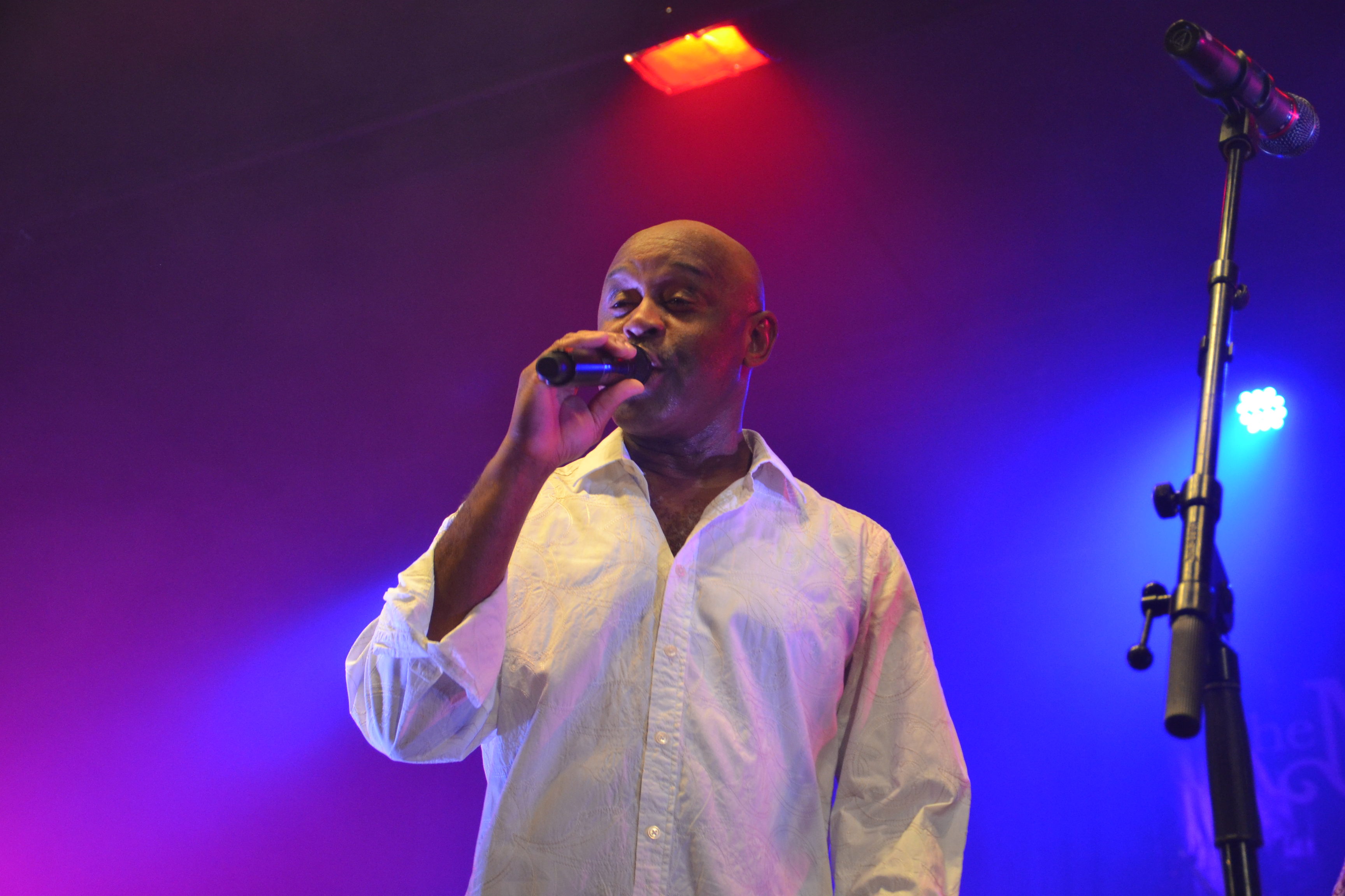 Tony Lindsay, Singer of Santana, in concert with "The Magic of Santana" in Bad Fallingbostel, Germany